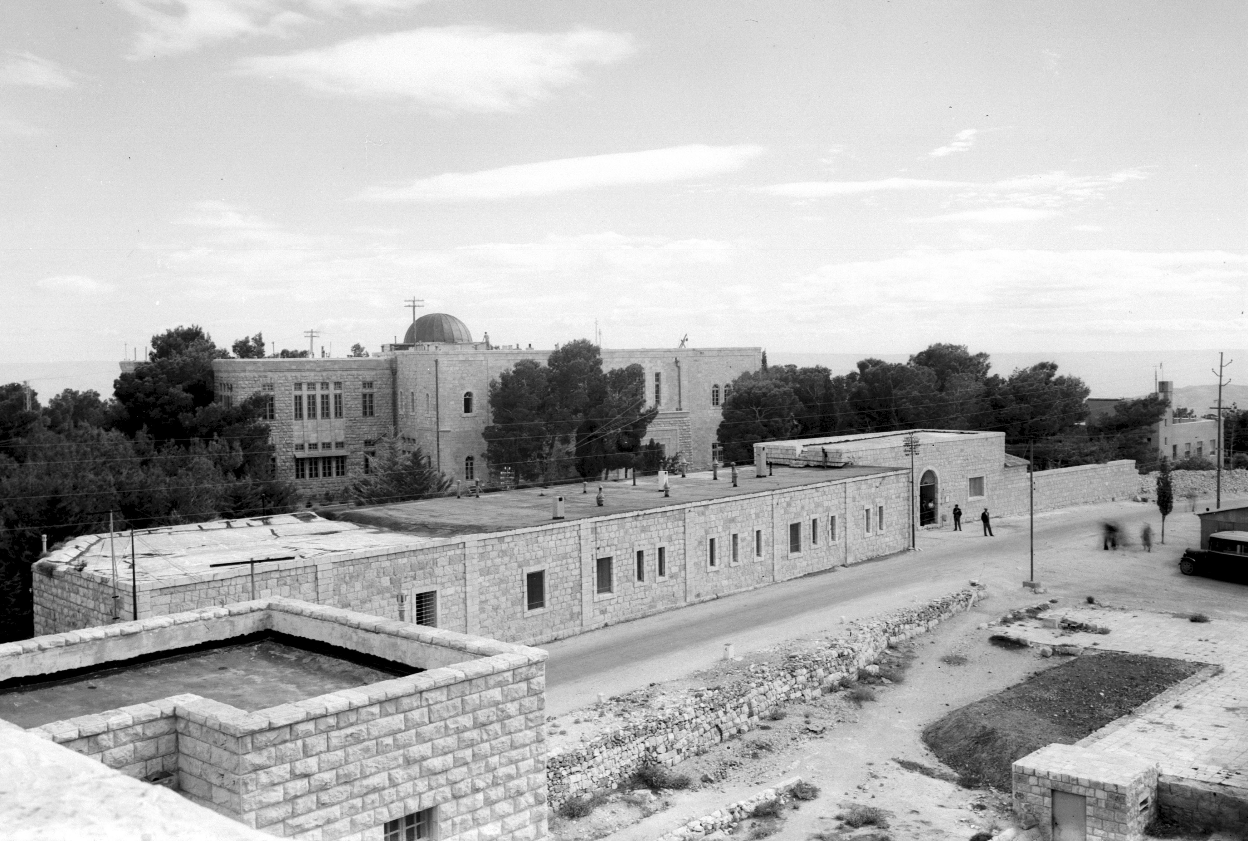 THE INSTITUTE OF PHYSICS AND CHEMISTRY WITH THE EINSTEIN INSTITUTE FOR MATHEMATICS IN THE REAR ON THE HEBREW UNIVERSITY CAMPUS IN JERUSALEM. הפקולטה למדעים באוניברסיטה העברית בירושלים.